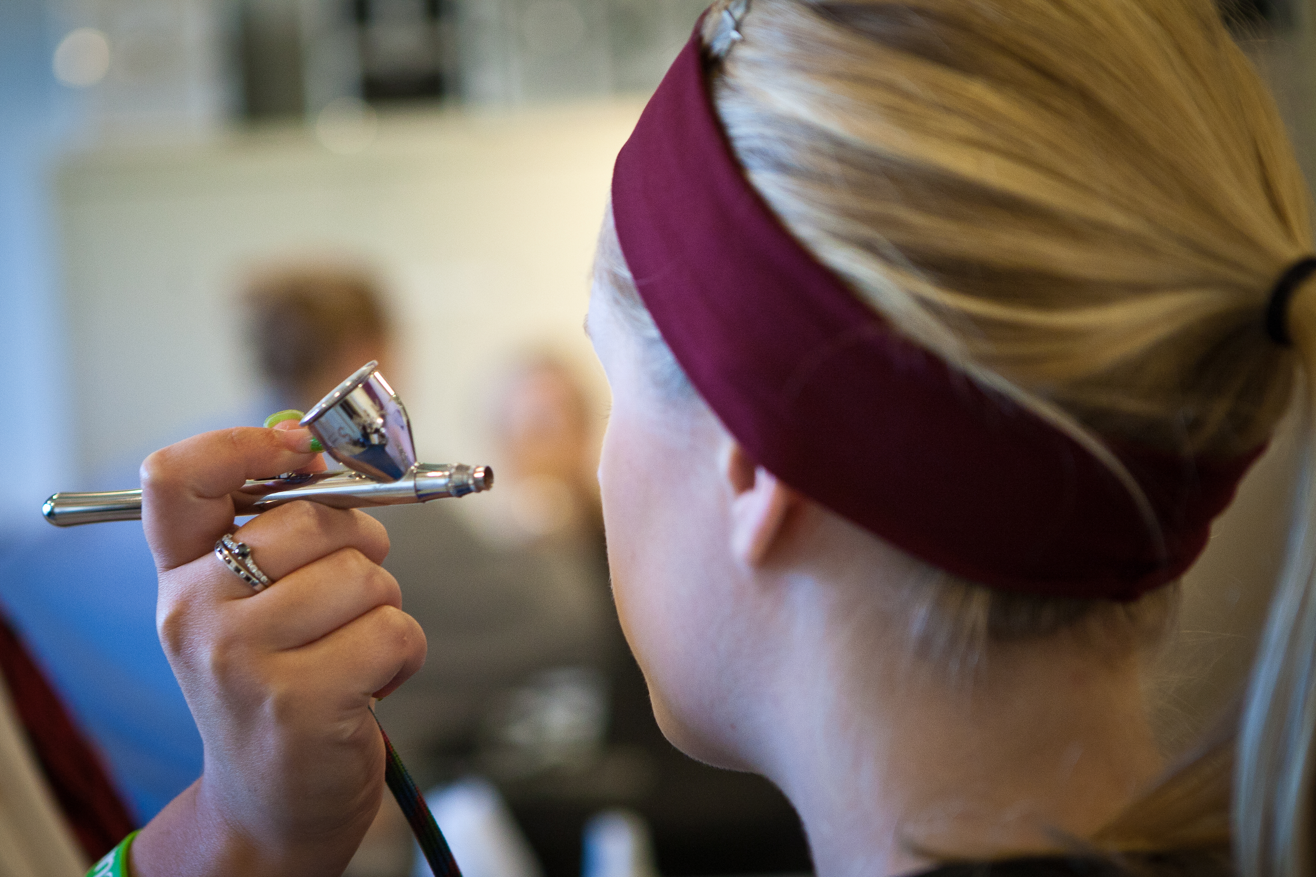 A make-up artist uses an airbrush to apply make-up to a models face.